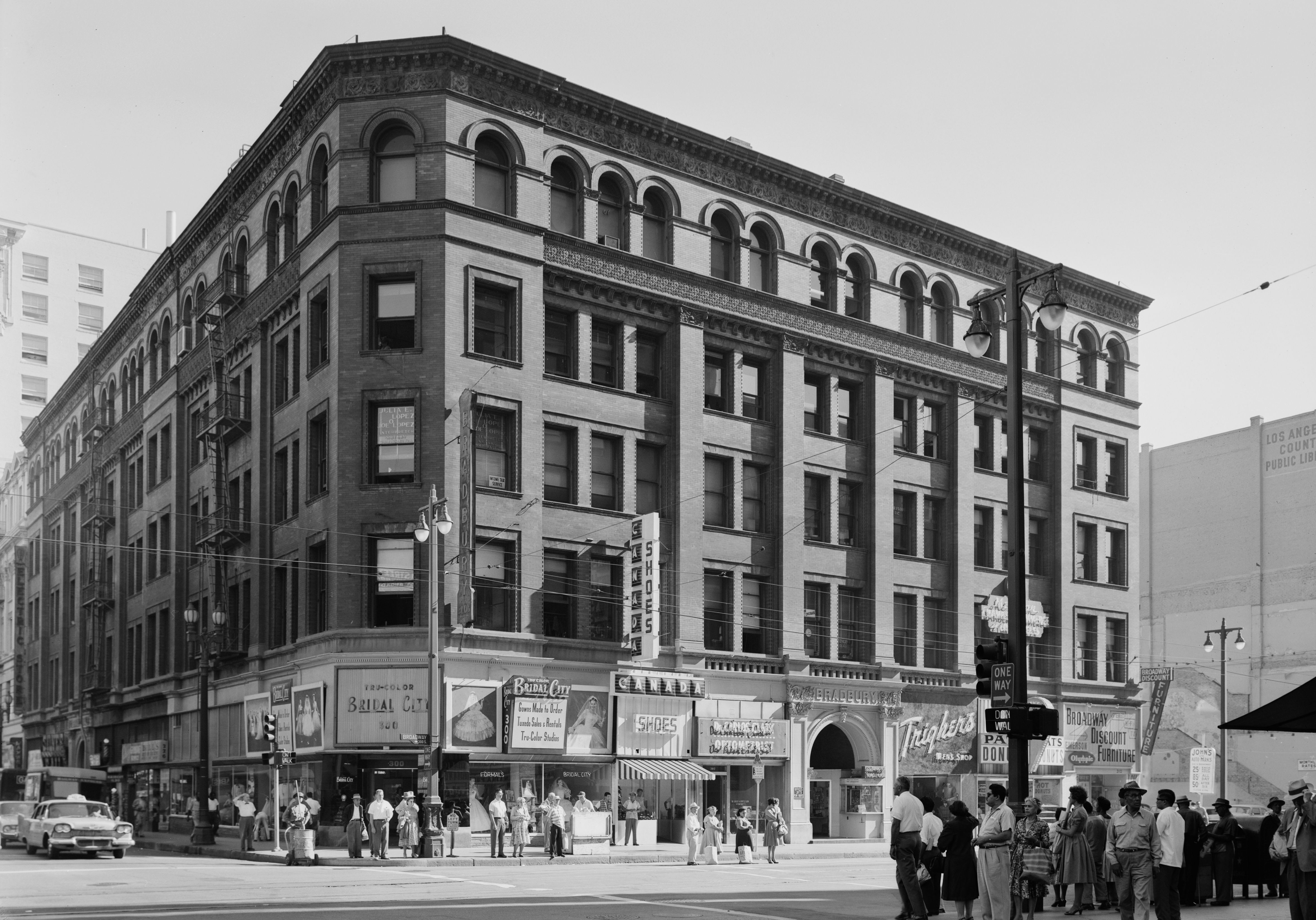 Bradbury Building, Los Angeles. Northwest corner elevation.